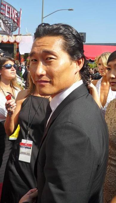 Actor Daniel Dae Kim at 2008 Emmy Awards.